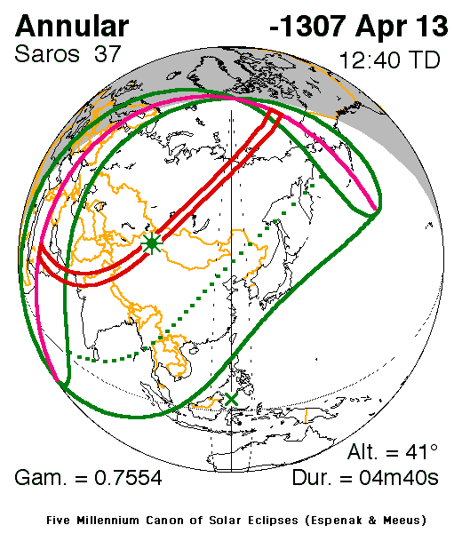 Solar eclipse map of path on earth. Solar eclipse of April 13, 1308 BC